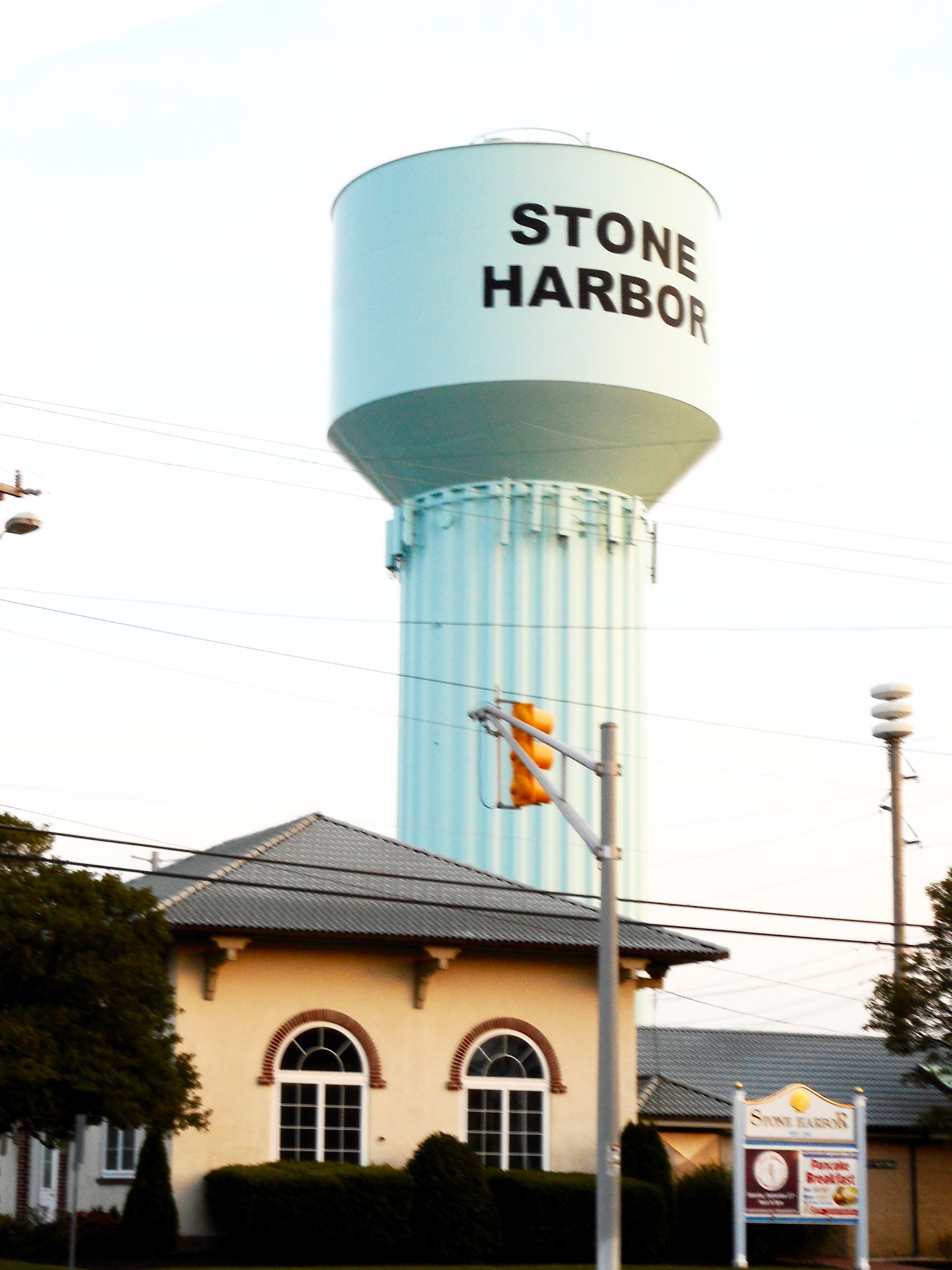 Pumping Station in Stone Harbor, New Jersey, built in 1924 according to the sign in front. The watertower looks a lot newer.